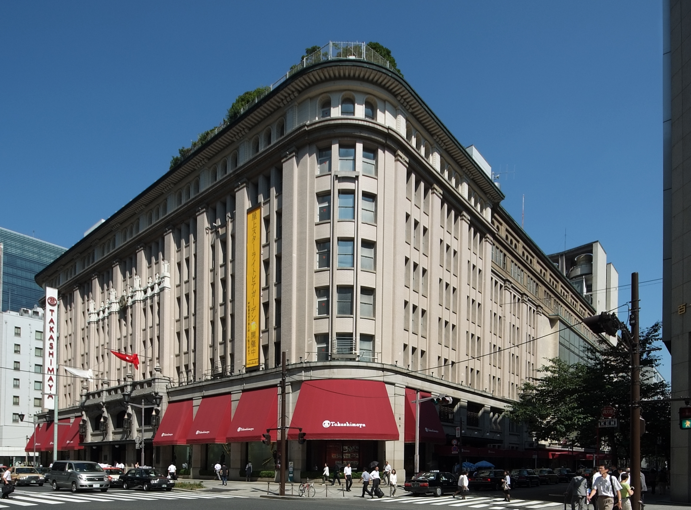 Takasimaya Nihonbashi Store, Chuo-ku Tokyo Japan, designed by Teitaro Takahashi in 1933 (Extension: Togo Murano in 1952,1954,1965)